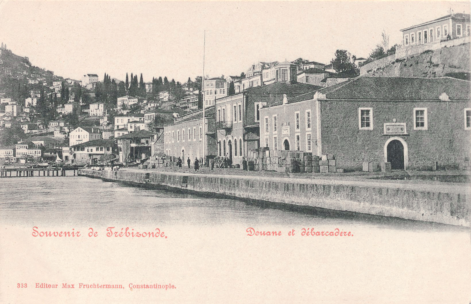 View of the customs office at the port of Trebizond